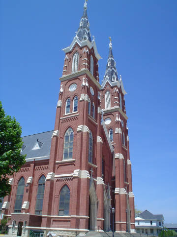 Exterior of the Basilica of St. Francis Xavier, Dyersville, Iowa, United States.